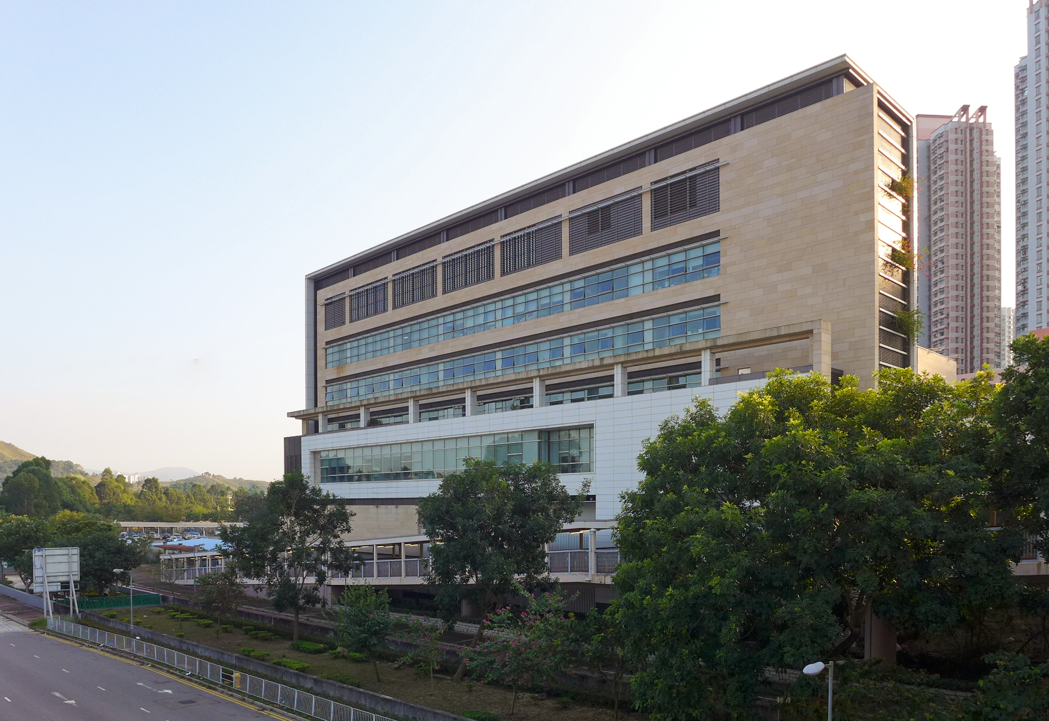 Tin Shui Wai (Tin Yip Road) Community Health Centre